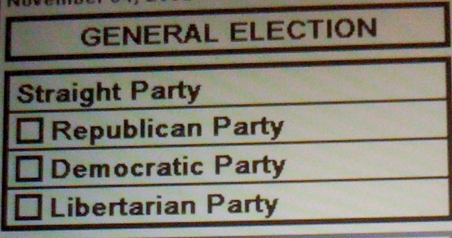 I voted early